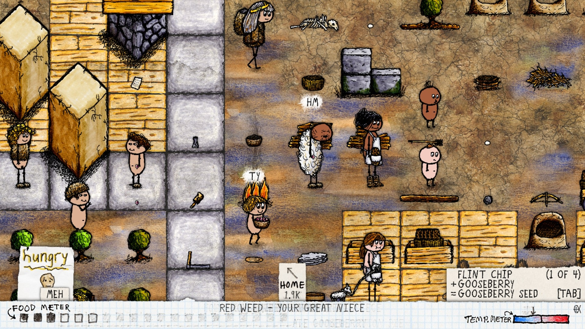 Screenshot of the game One Hour One Life, showing a village with various characters.